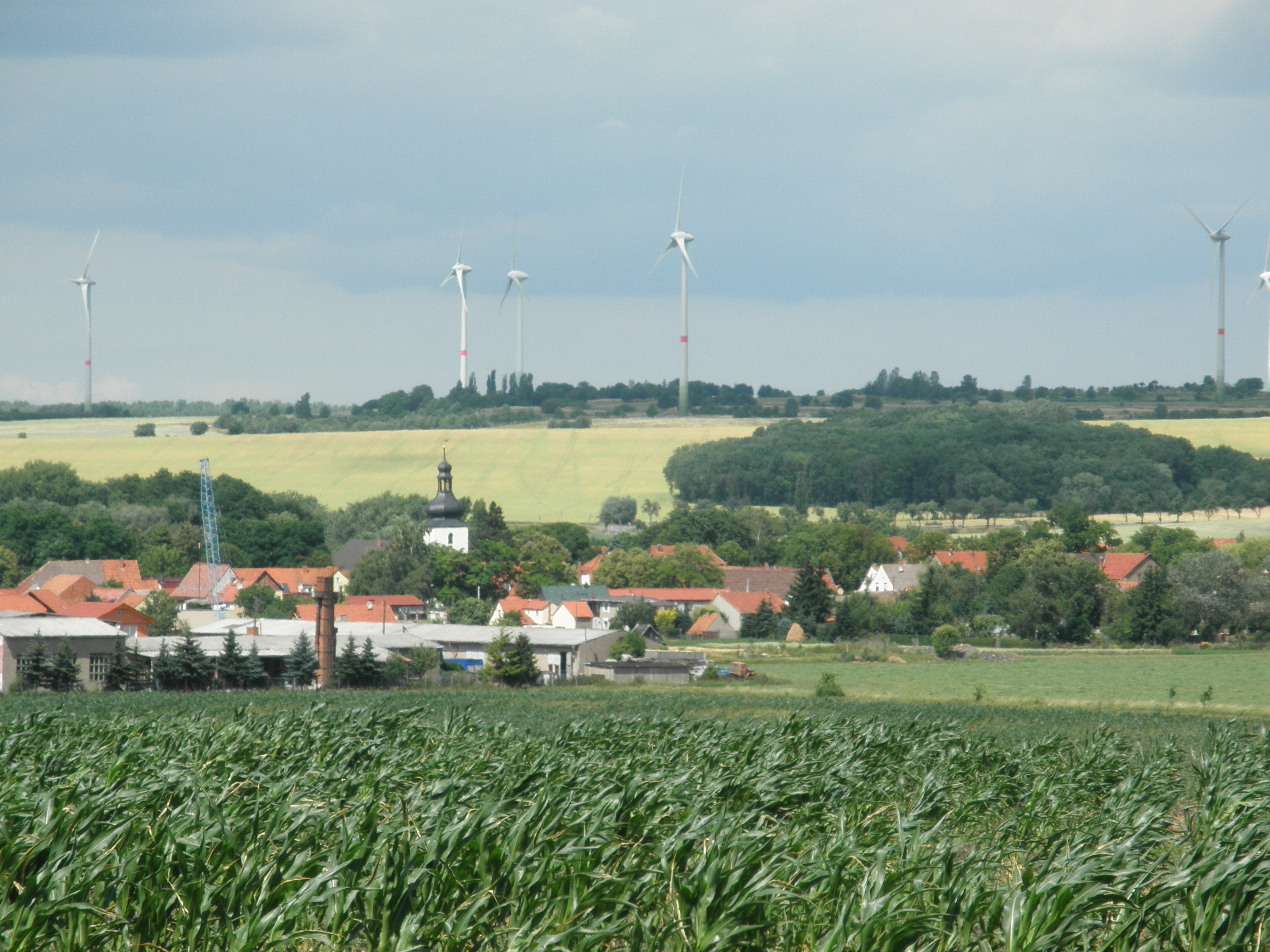 View to Markvippach (Thuringia)